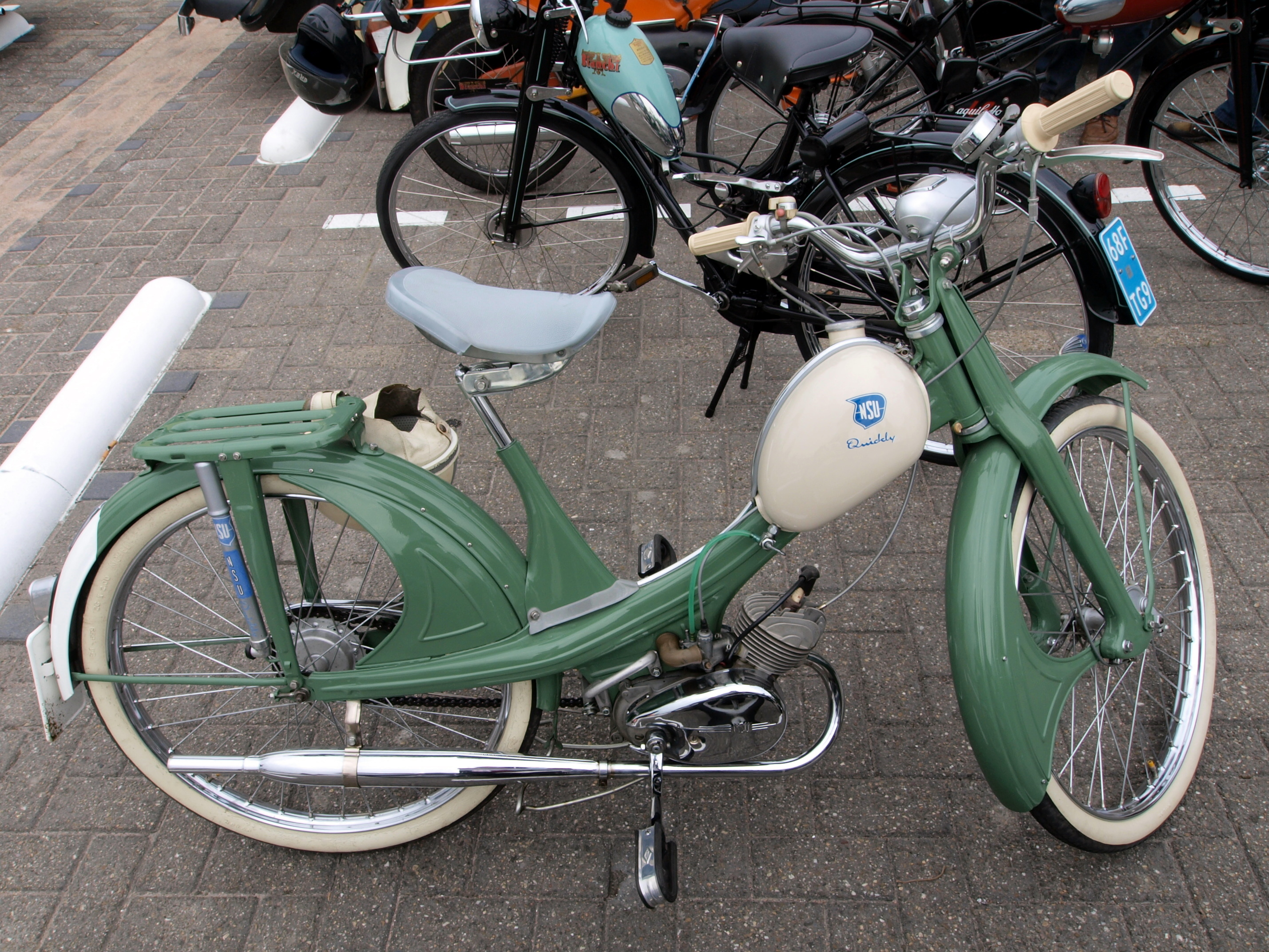 Cars and motorcycles photographed at the Voorschotense Oldtimer Vereniging Show, Valkenburgse meer, The Netherlands. OLYMPUS DIGITAL CAMERA